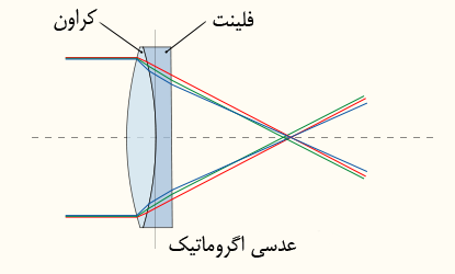 An achromatic doublet, combining crown glass and flint glass.